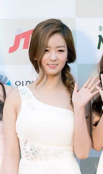 Yoon Bo-mi at 2014 K-pop Awards red carpet.